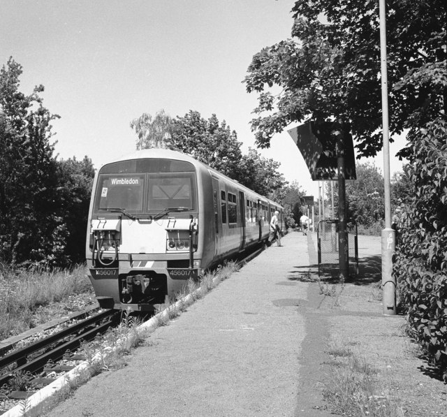 Merton Park railway station, seen on the last day of train services with a Class 456 unit.